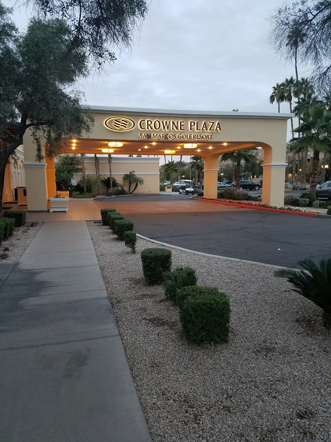 San Marcos Hotel in Chandler, AZ 2016